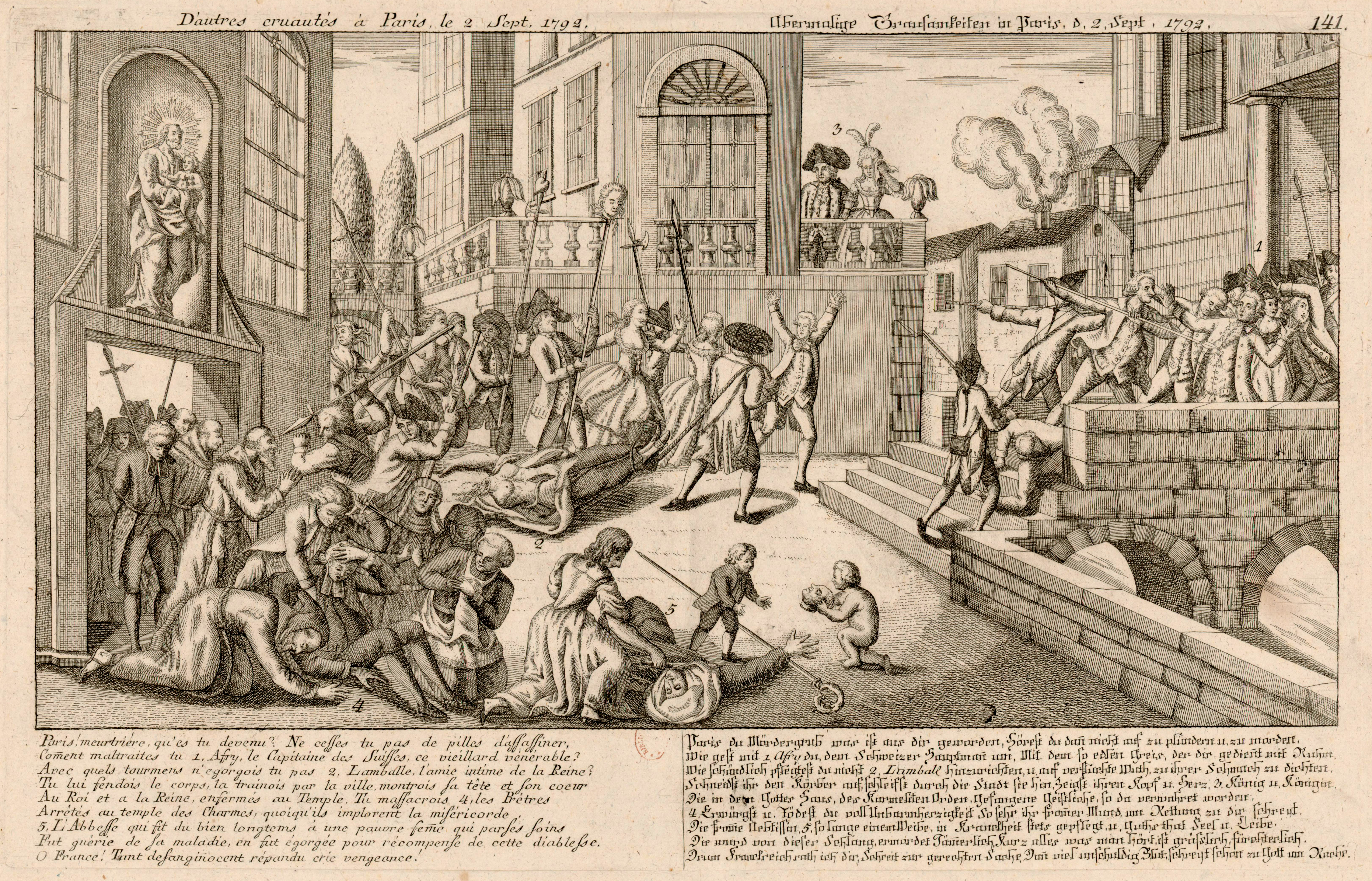 The Massacre of priests outside the prison des Carmes (?), september 2 1792